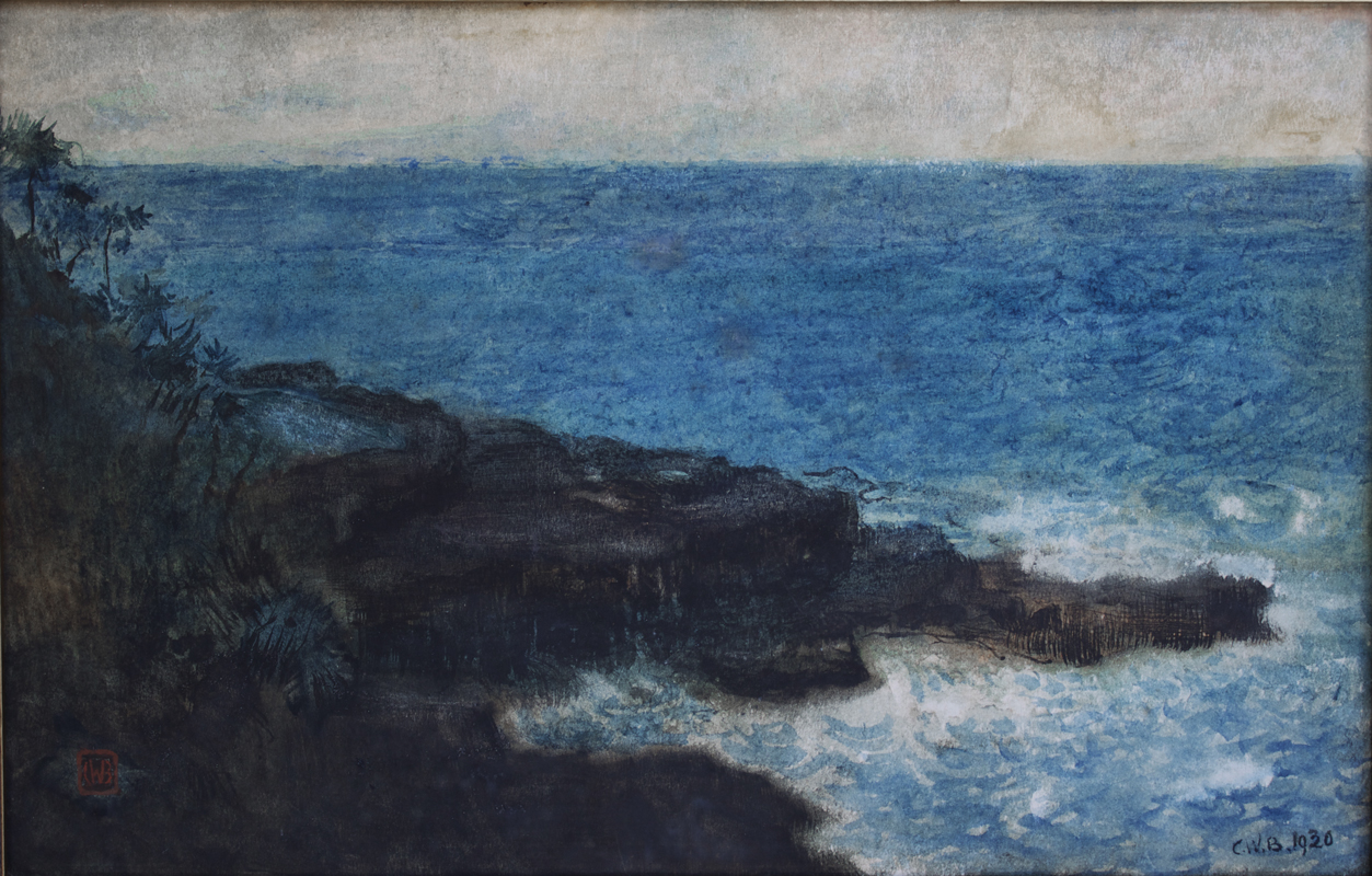 Charles W. Bartlett's watercolor and ink Hana Maui Coast, 1920